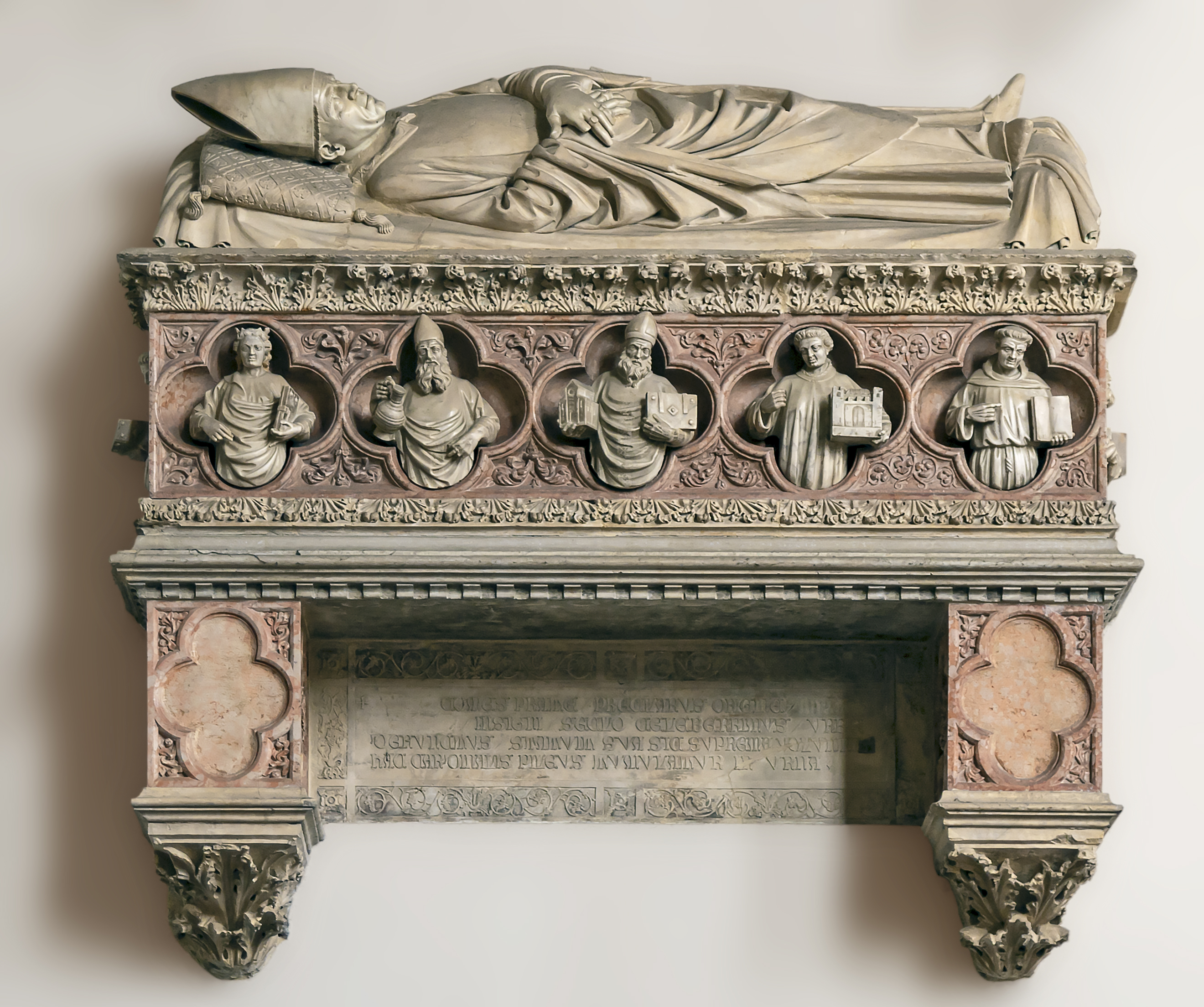 On the left wall a tomb of 1420 with the recumbent statue of Pileo da Prata, bishop of Padua. It was created by Pierpaolo dalle Masegne.